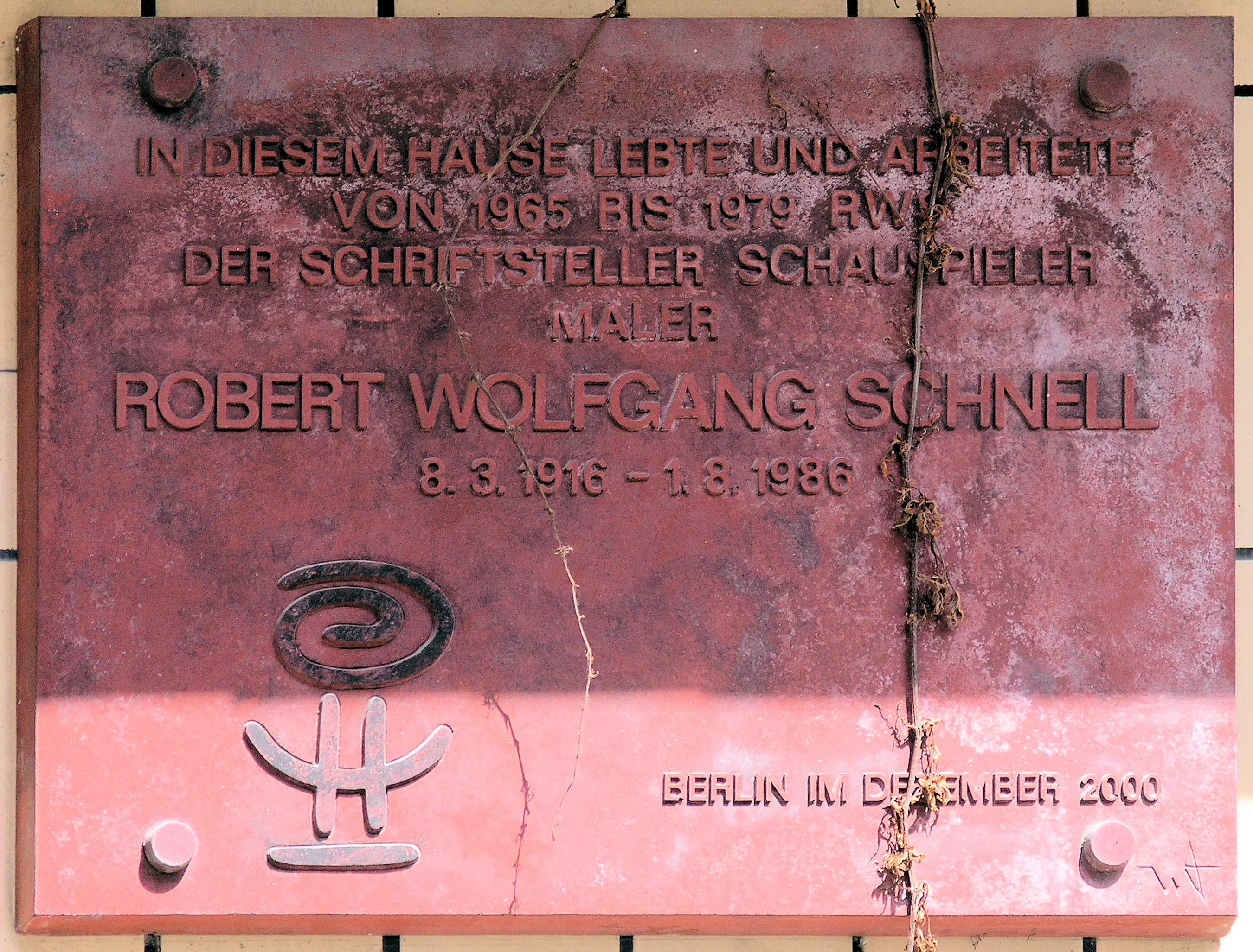 Memorial plaque, Robert Wolfgang Schnell, Behaimstr 10, Berlin-Charlottenburg, Germany Koordinate:52°30′59.9″N 13°18′18.2″E / 52.516639°N 13.305056°E